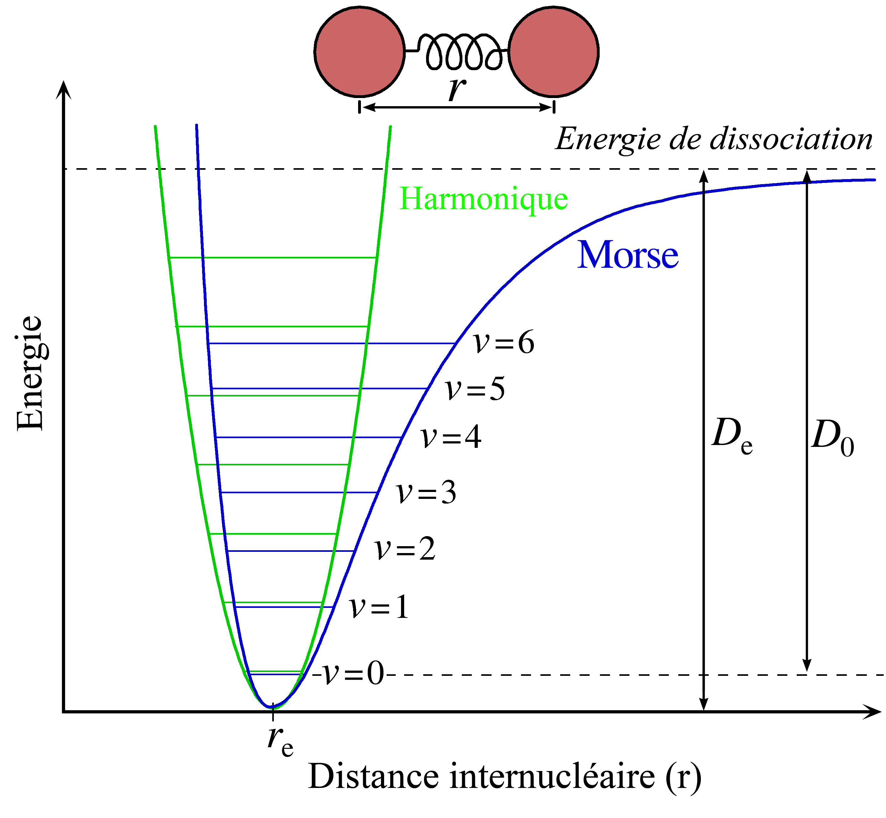 Graphical depiction of the Morse potential with a harmonic potential for comparison. Created by Mark Somoza March 26 2006. Now in french. Représentation graphique du potentiel de Morse comparé au potentiel harmonique.